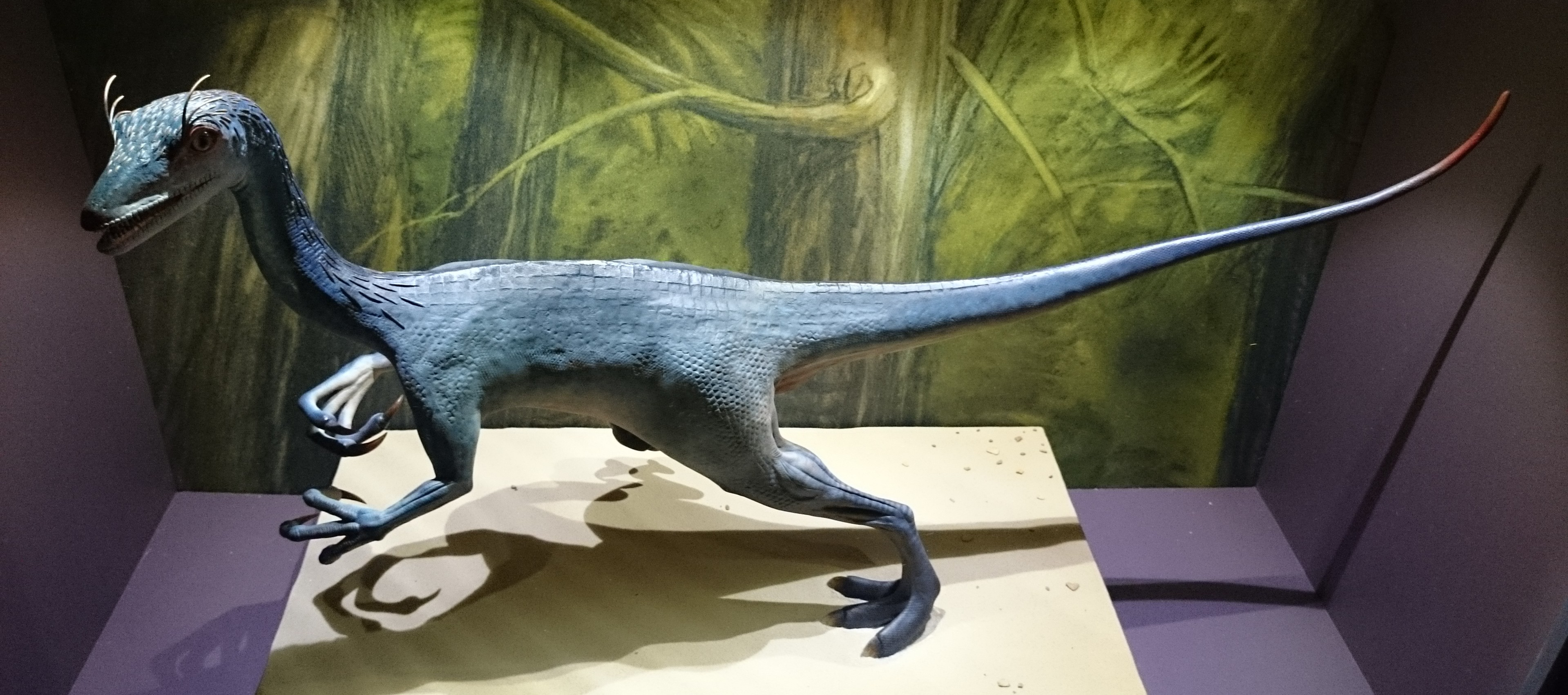 Dinosaur